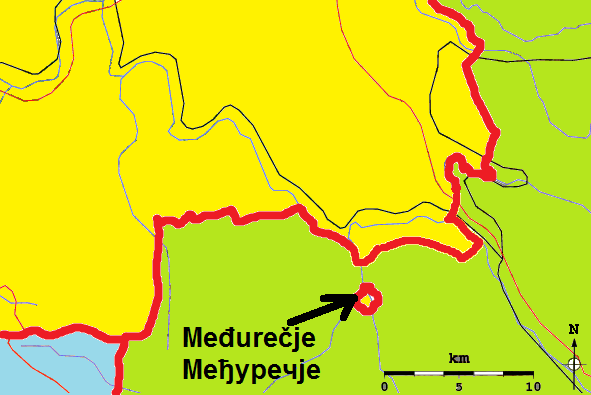 Map of enclave of Sastavci in Rudo municipality, Foča Region in Republika Srpska (BIH)